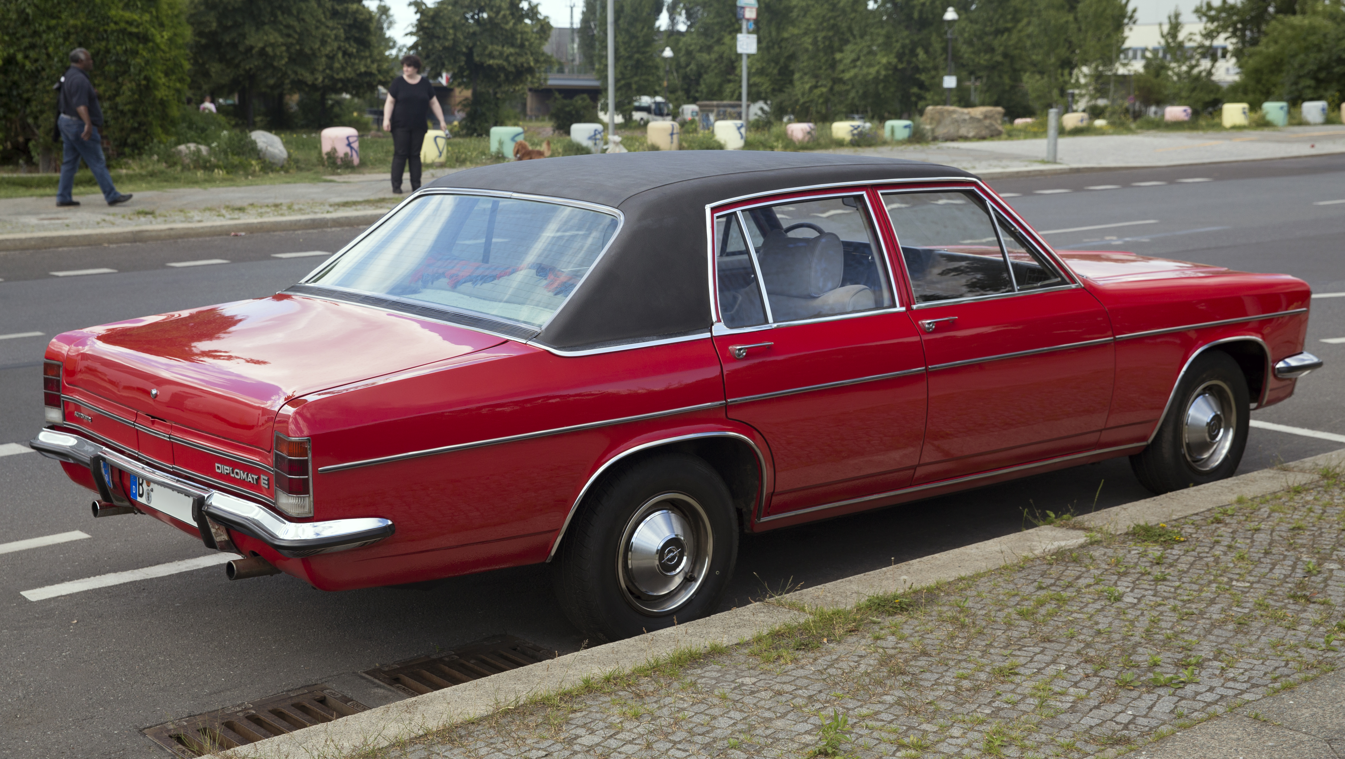 An early 1970s Opel Diplomat E Automatic in a particularly ill-fitting colour. Looked nice and shiny until one got too close.